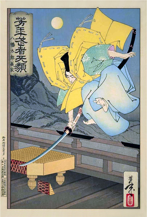 Ukiyo-e, made by Tsukioka Yoshitoshi. Title is Minamoto no Yoshiie.